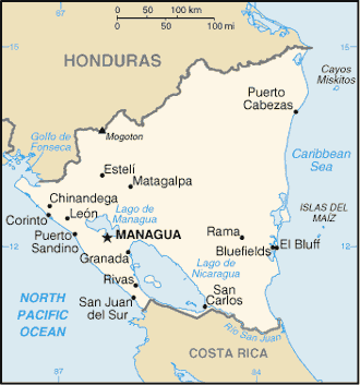 Map of Nicaragua.